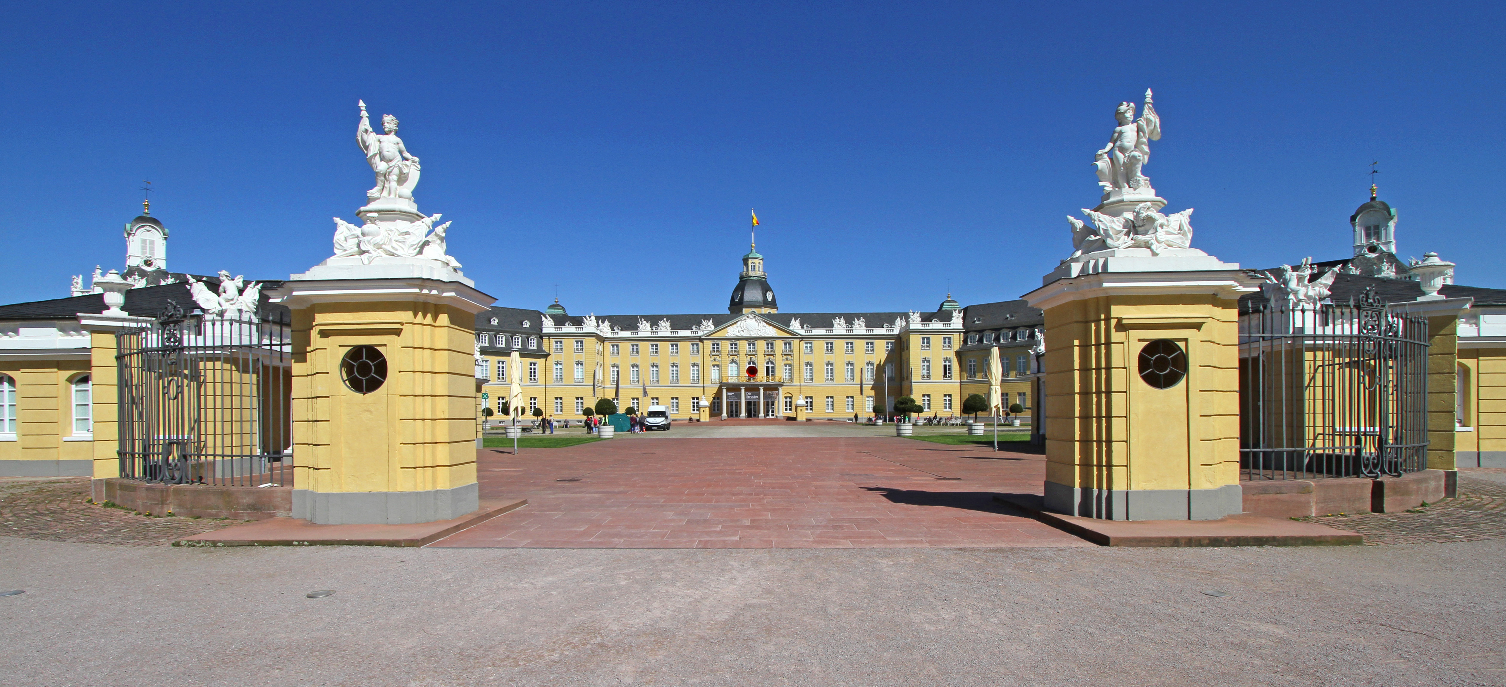 Karlsruhe Palace